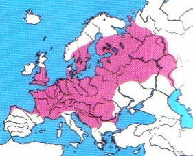 En: Rangemap of European bullhead, Hu: Botos kölönte élőhelye Európában